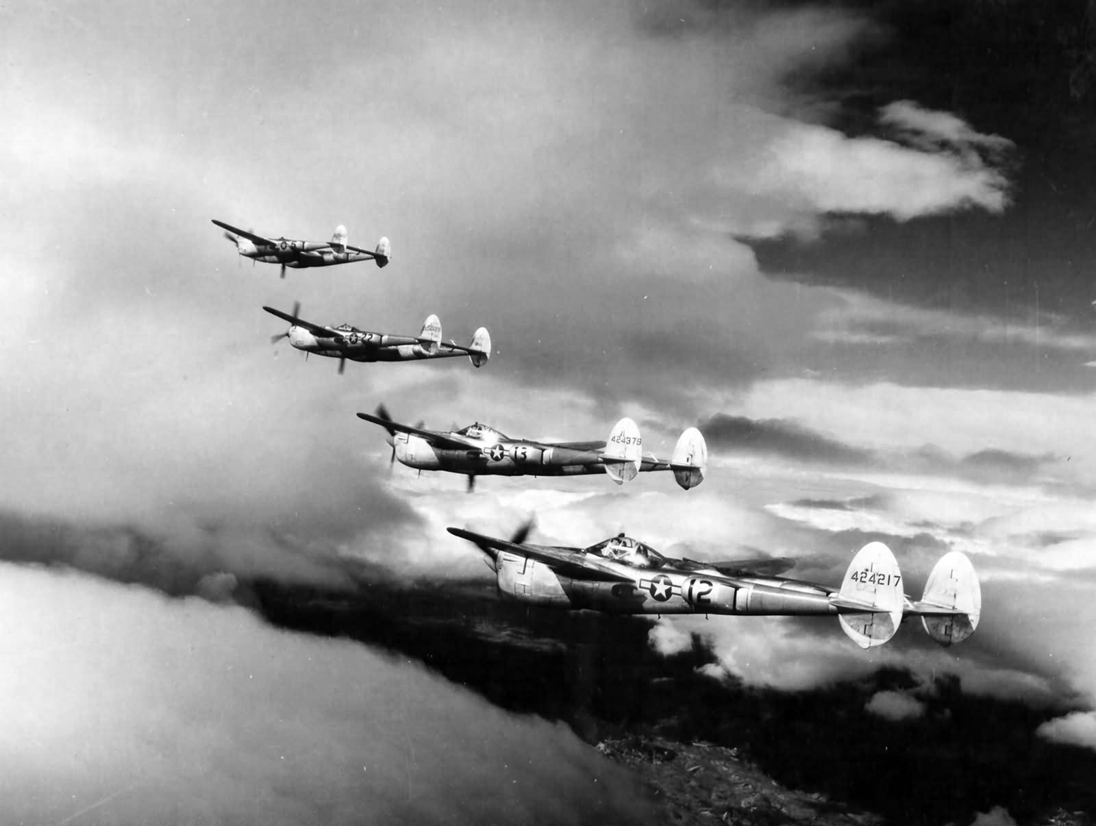 P-38 Lightnings of the 1st Fighter Group, 15th Air Force in formation over Yugoslavia